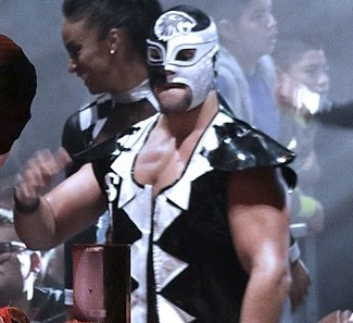 Viernes 30 de noviembre de 2018Arena México, ceremonia de develación de la placa conmemorativa por el reciente decreto de la Lucha Libre como Patrimonio Cultural Intangible de la Ciudad de México, estuvieron presentes autoridades del Consejo Mundial de Lucha Libre, y autoridades del gobierno de la CMDX, entre ellos Gabriela López Torres, coordinadora de Patrimonio Histórico Artístico y Cultural de la Secretaría de Cultura de la CDMX, además de invitados especiales.Fotografía: Tania Victoria/ Secretaría de Cultura CDMX